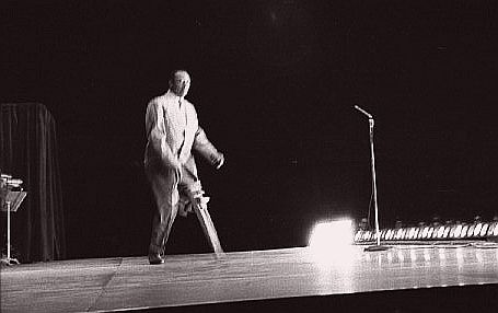 Peg Leg Bates, performing at the Denver Muscular Dystrophy Marathon, December, 1954, Denver, Colorado Colosseum